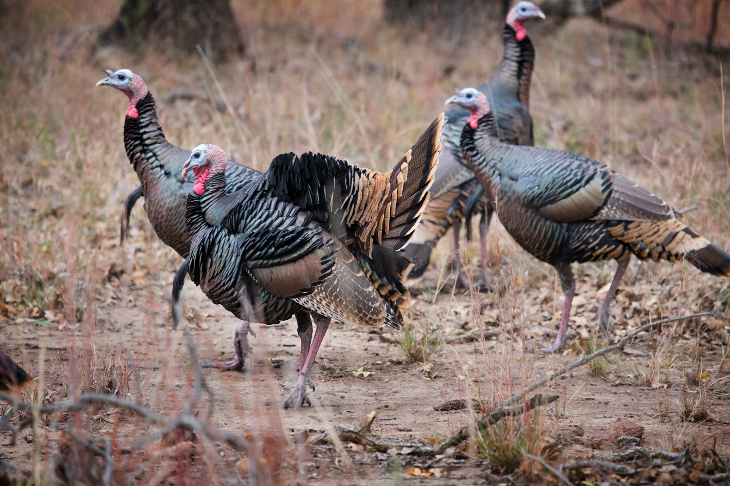 Turkeys